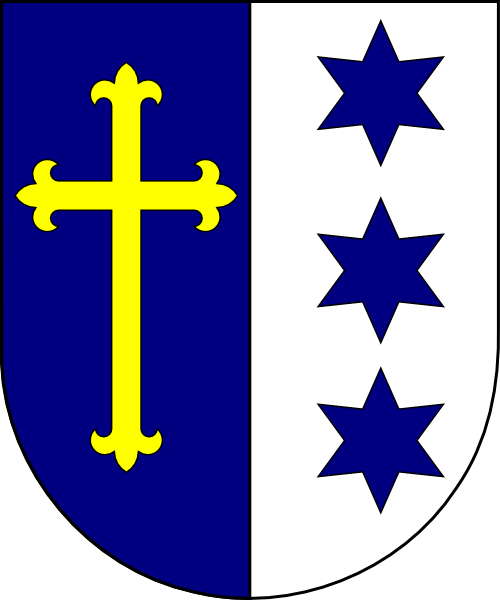 Coat of arms (shield only) of Josef Jan Evangelista Hais, bishop of Hradec Králové, Czech Republic (1875 - 1892). Based on 1887 armorial deed.